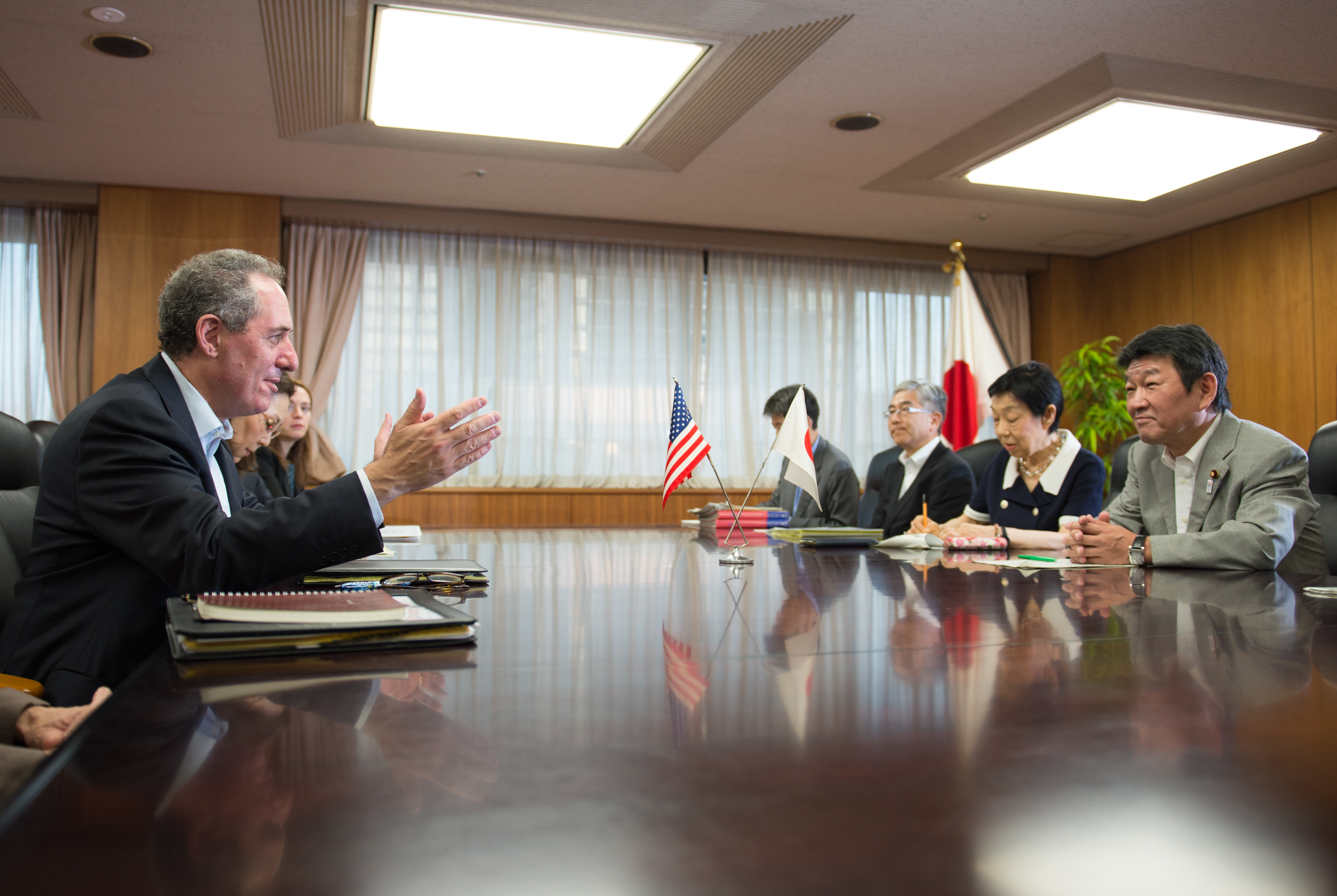 TOKYO, Japan (August 18, 2013) United States Trade Representative Michael Froman with Japan’s Minister of Economy, Trade and Industry Toshimitsu Motegi [State Department photo by William Ng/Public Domain]